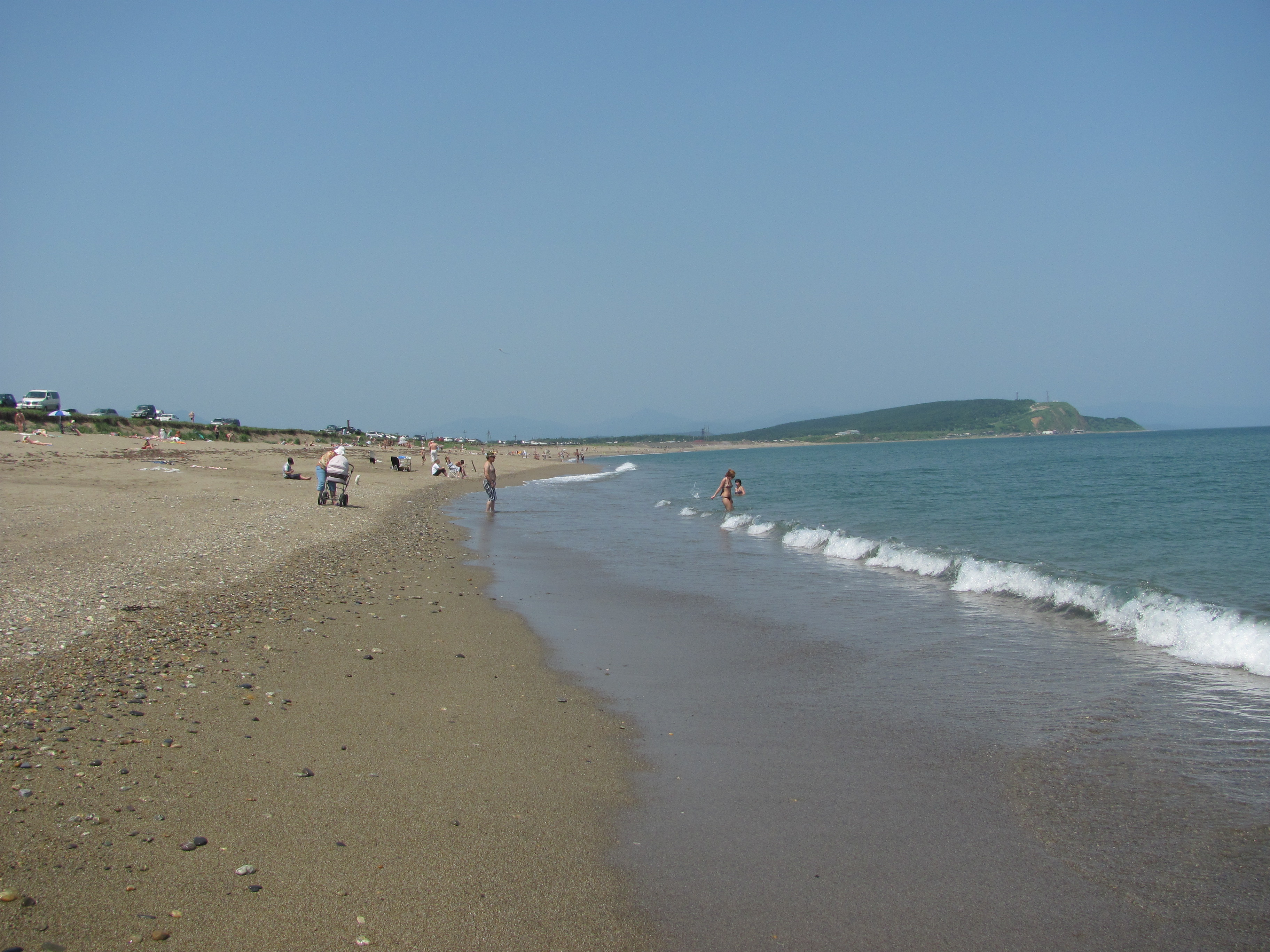 "Popular beach near Okhotskoye. Sakhalin coast of Sea of Okhotsk.